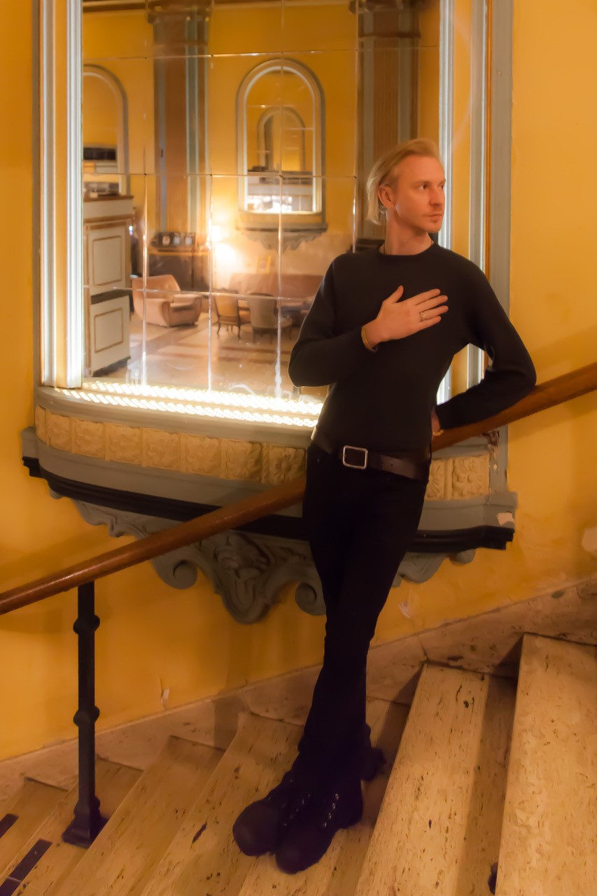 Leonard photographed in 2018